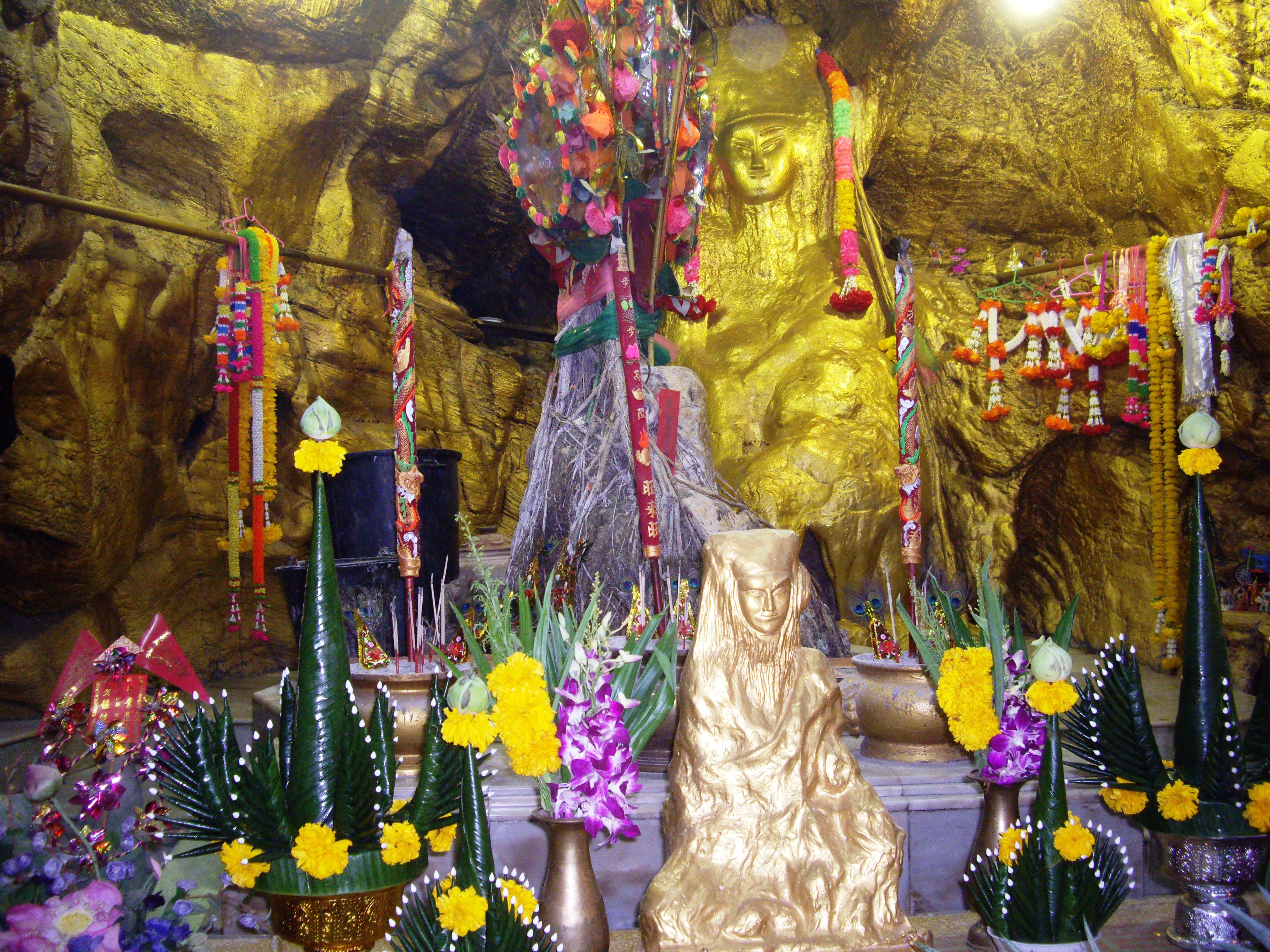 San Jao Phaw Khao Yai Chinese Temple